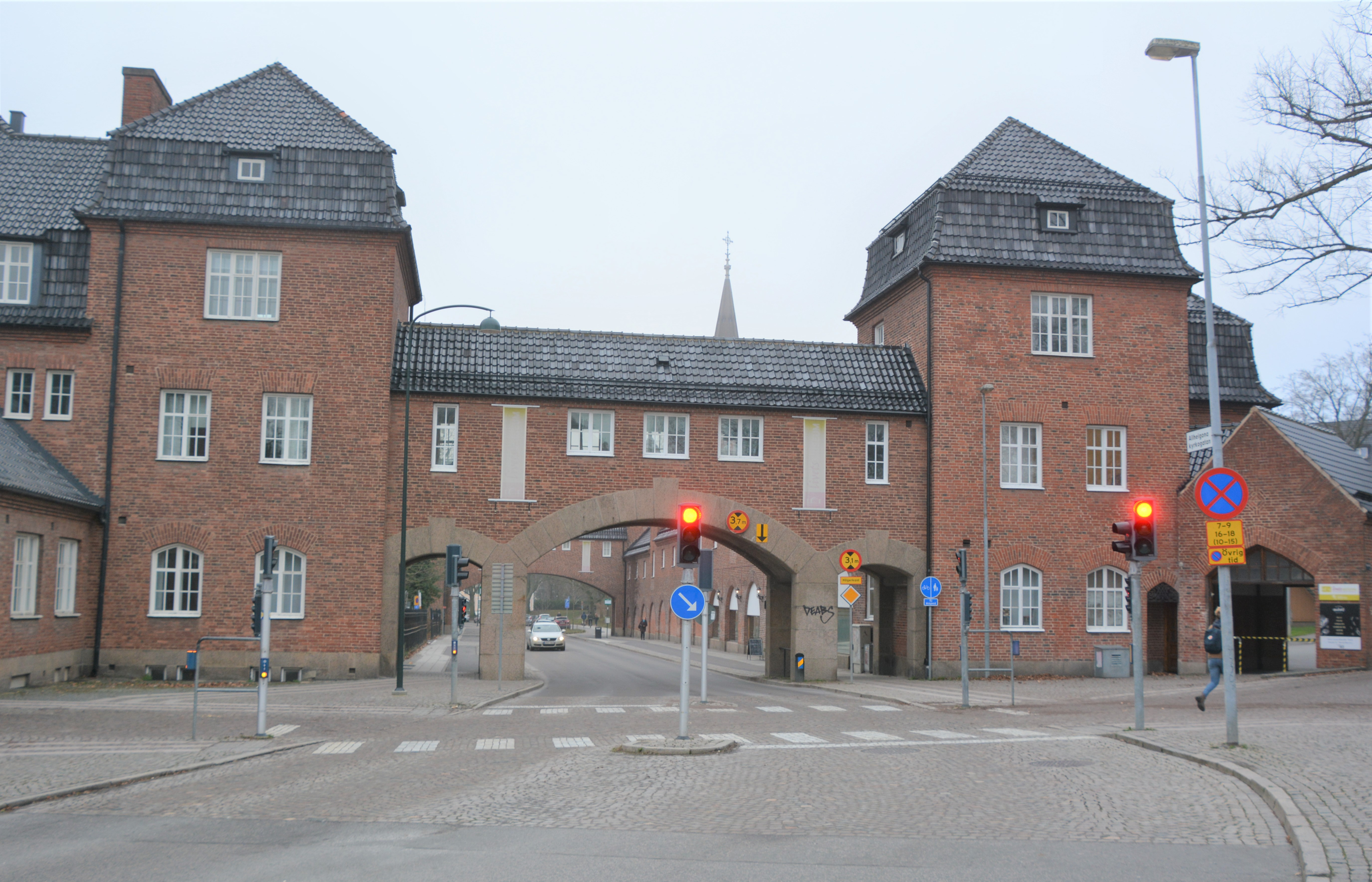 Valvet, an overpass above Allhelgona kyrkogata in Lund, Sweden. The overpass links the former south and north areas of the Lund University hospital.